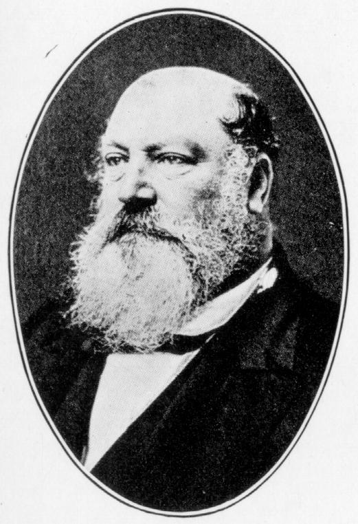 Image of Thomas Harris, Mayor of Victoria, British COlumbia.